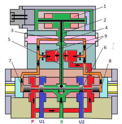 Servovalve: parts and flow lines